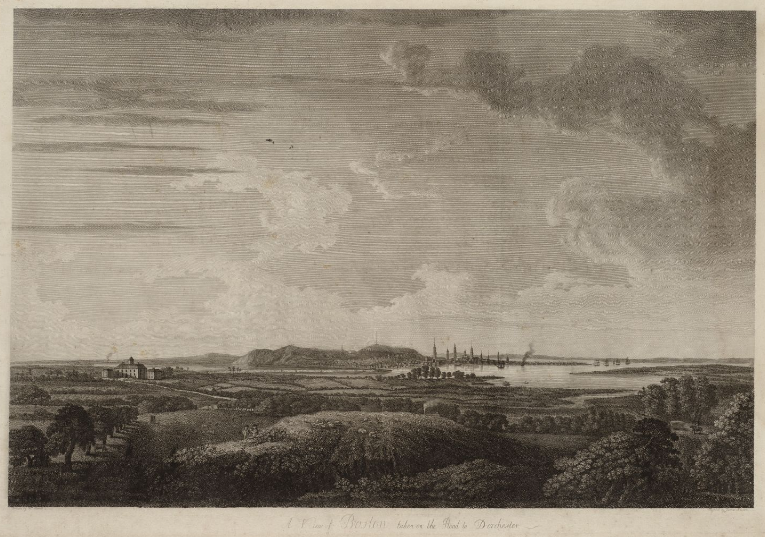 View of Boston, from the road to Dorchester